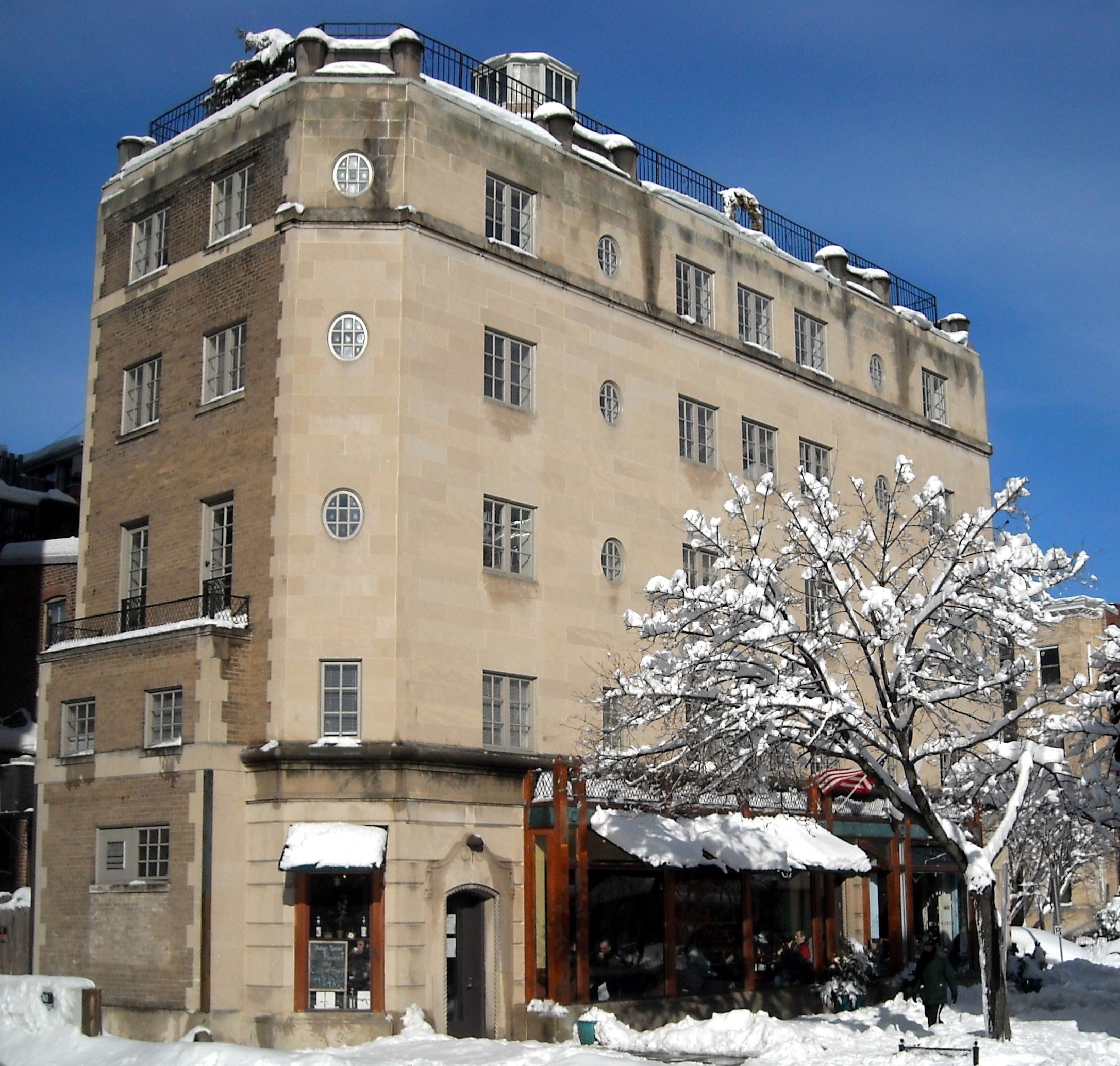 The Moorings, also known as the American Hellenic Educational Progressive Association (AHEPA) headquarters, located at 1901–1909 Q Street, N.W., in the Dupont Circle neighborhood of Washington, D.C., following the First North American blizzard of 2010. The Art Deco-style building was designed by architect Horace W. Peaslee in 1927 and originally served as an apartment house. In addition to AHEPA, current tenants include The Cultural Landscape Foundation, Firehook Bakery & Coffee House, and Diego's Hair Salon. The Moorings is designated as a contributing property to the Dupont Circle Historic District, listed on the National Register of Historic Places in 1978.